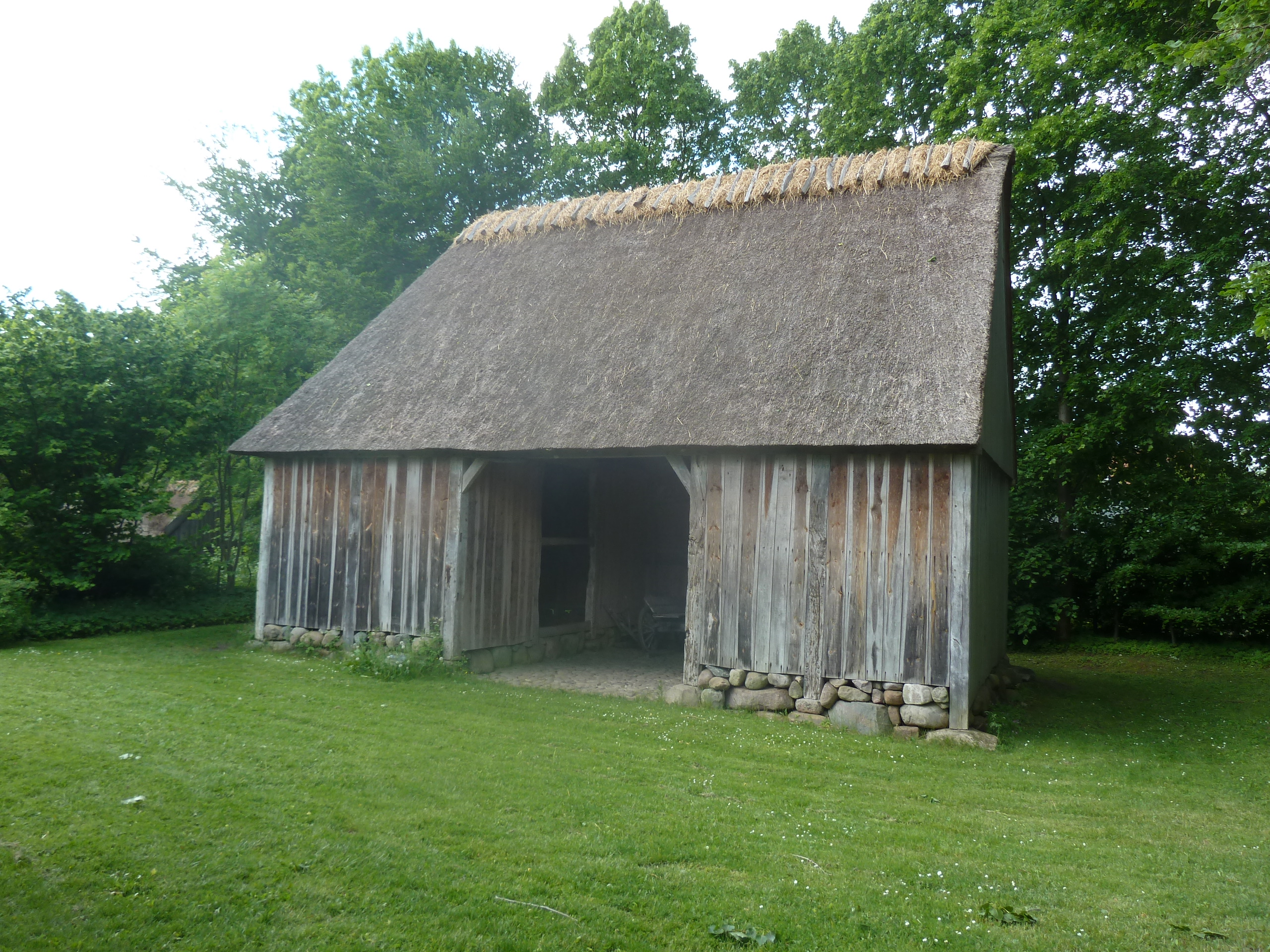 Barn from Als, Sønderjylland, now on Frilandsmuseet (the open air museum) north of Copenhagen.